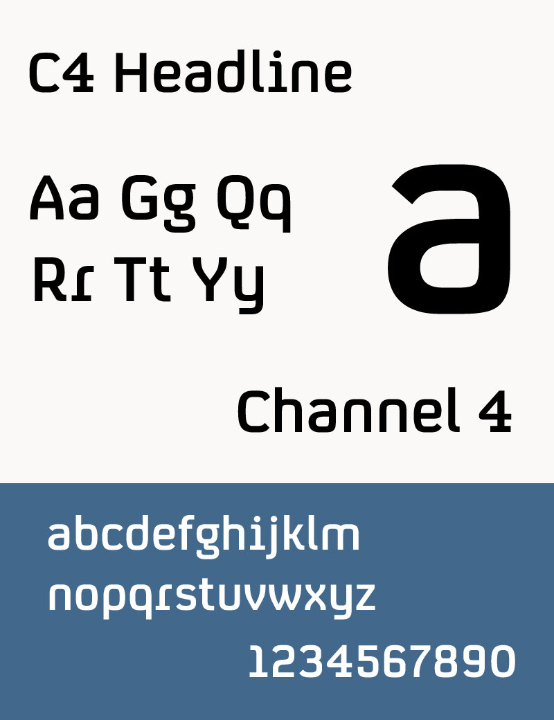 Sample of C4 Headline (typeface used by Channel 4)